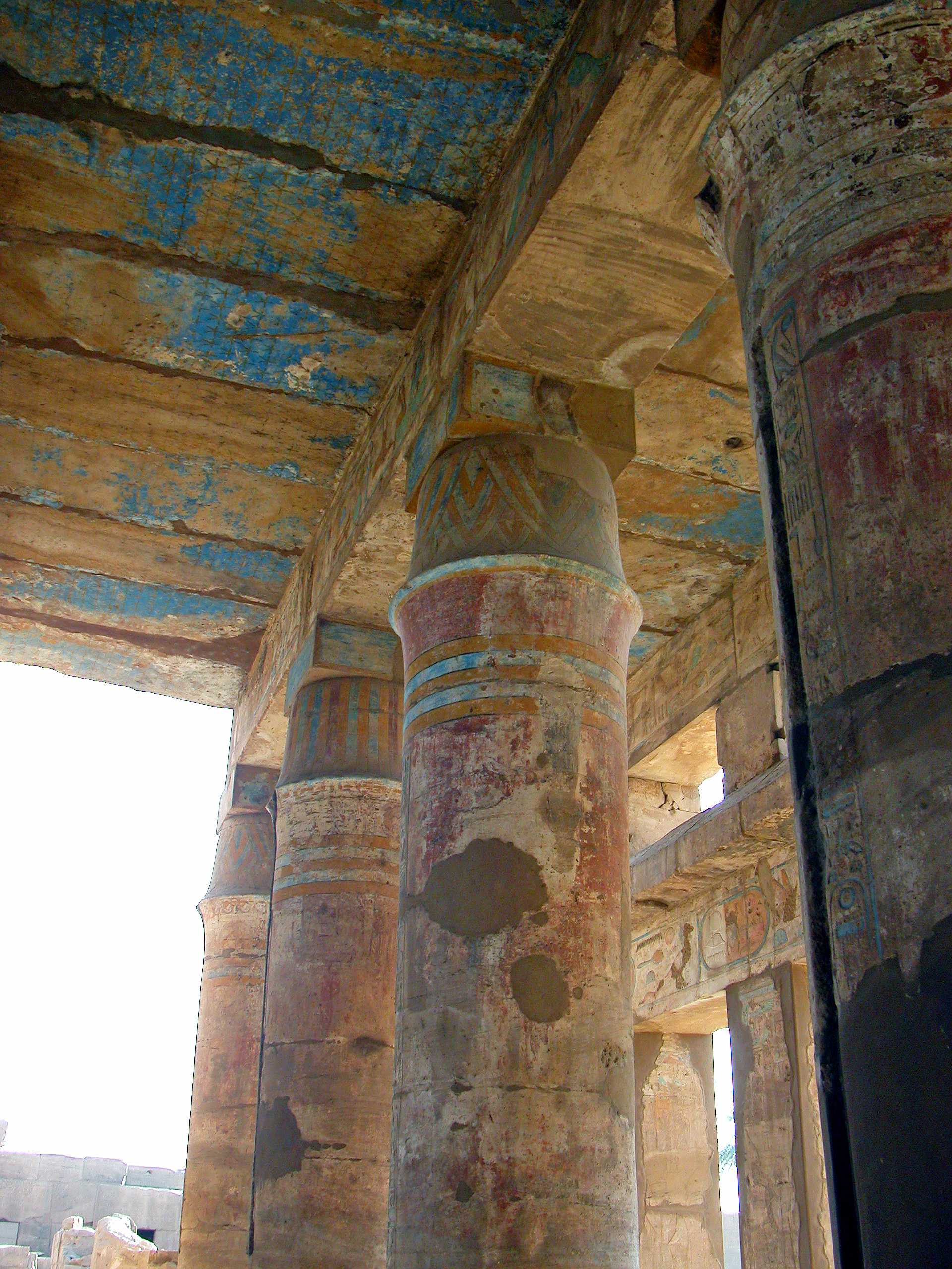 The festival hall is a beautiful hypostyle hall with two rows of ten columns, which is called "tent poles" with their thirty-two square pillars decorated with scenes. The tent pole columns was figured from the wooden pole of the temporary tent structures at festival. Inside of the hall are two rows of tall columns bearing a flat roof that is higher than the roofs of the surrounding halls. Karnak Temple, Luxor, Egypt